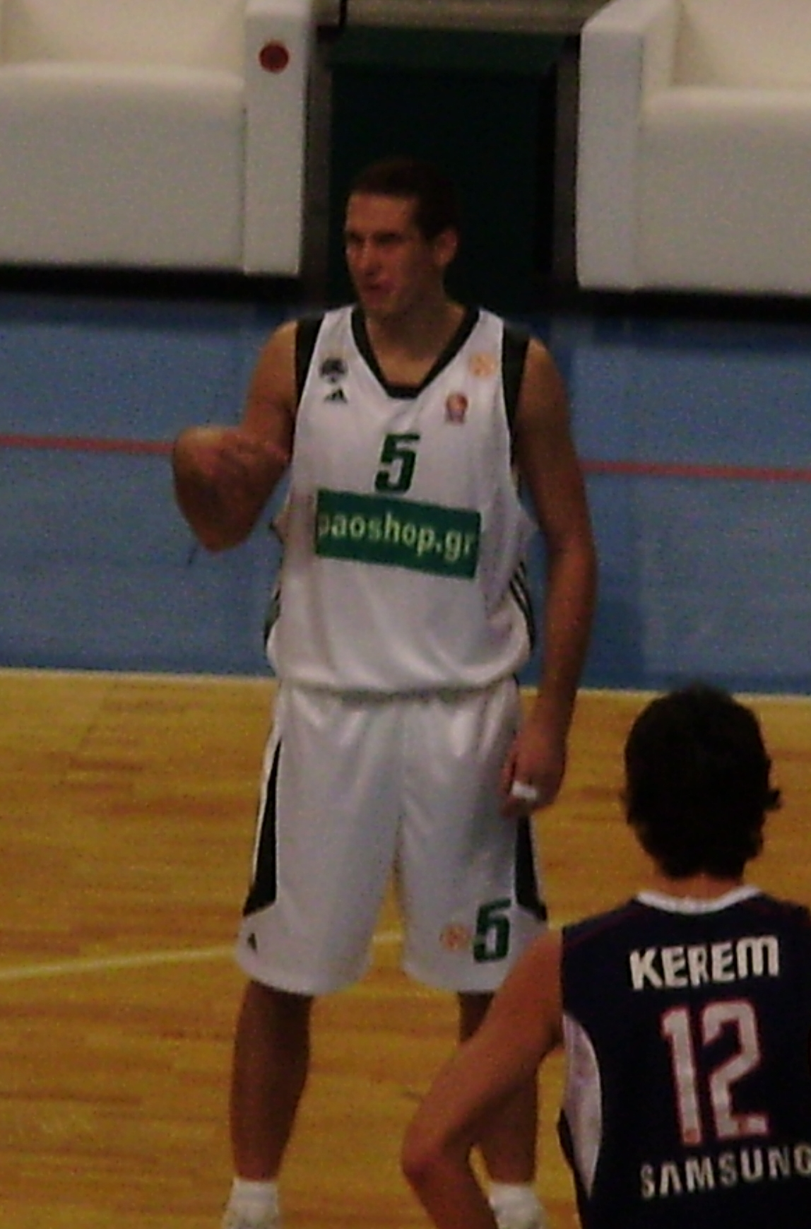 Dušan Kecman,PAO Efes Pilsen OAKA stadium